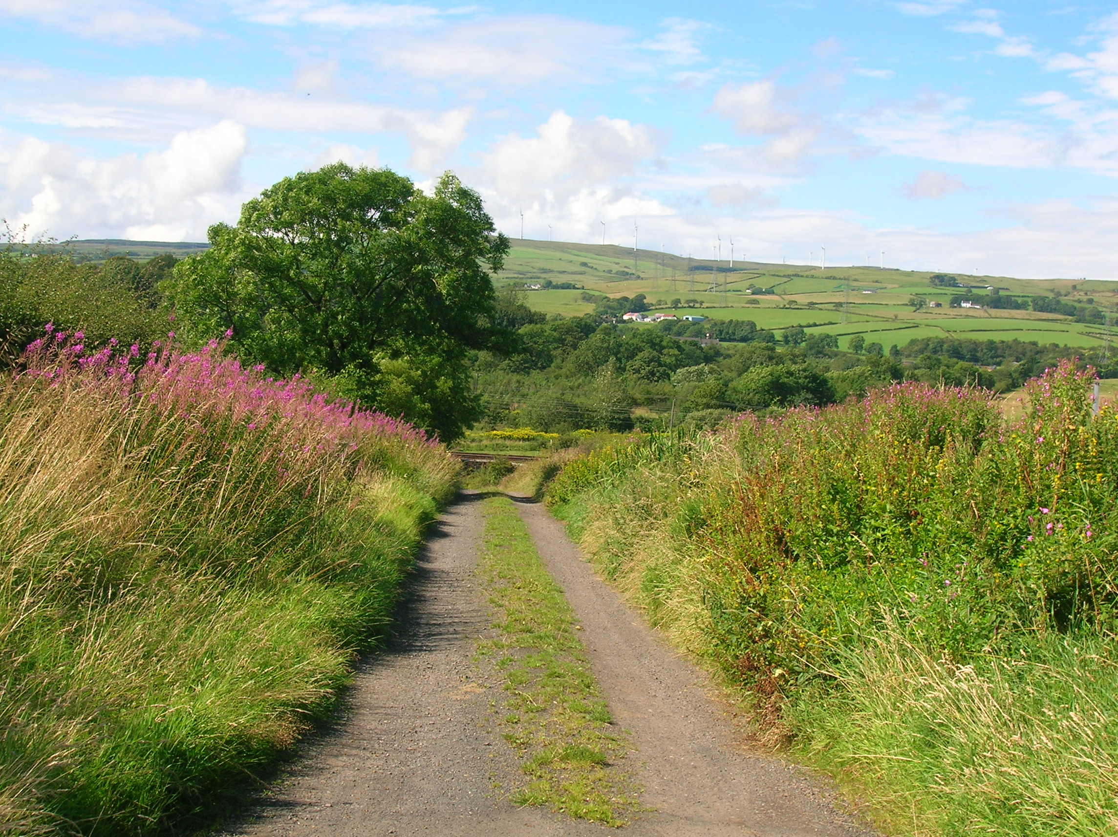 The site of Kersland Row, near West Kersland, Dalry, North Ayrshire, Scotland.